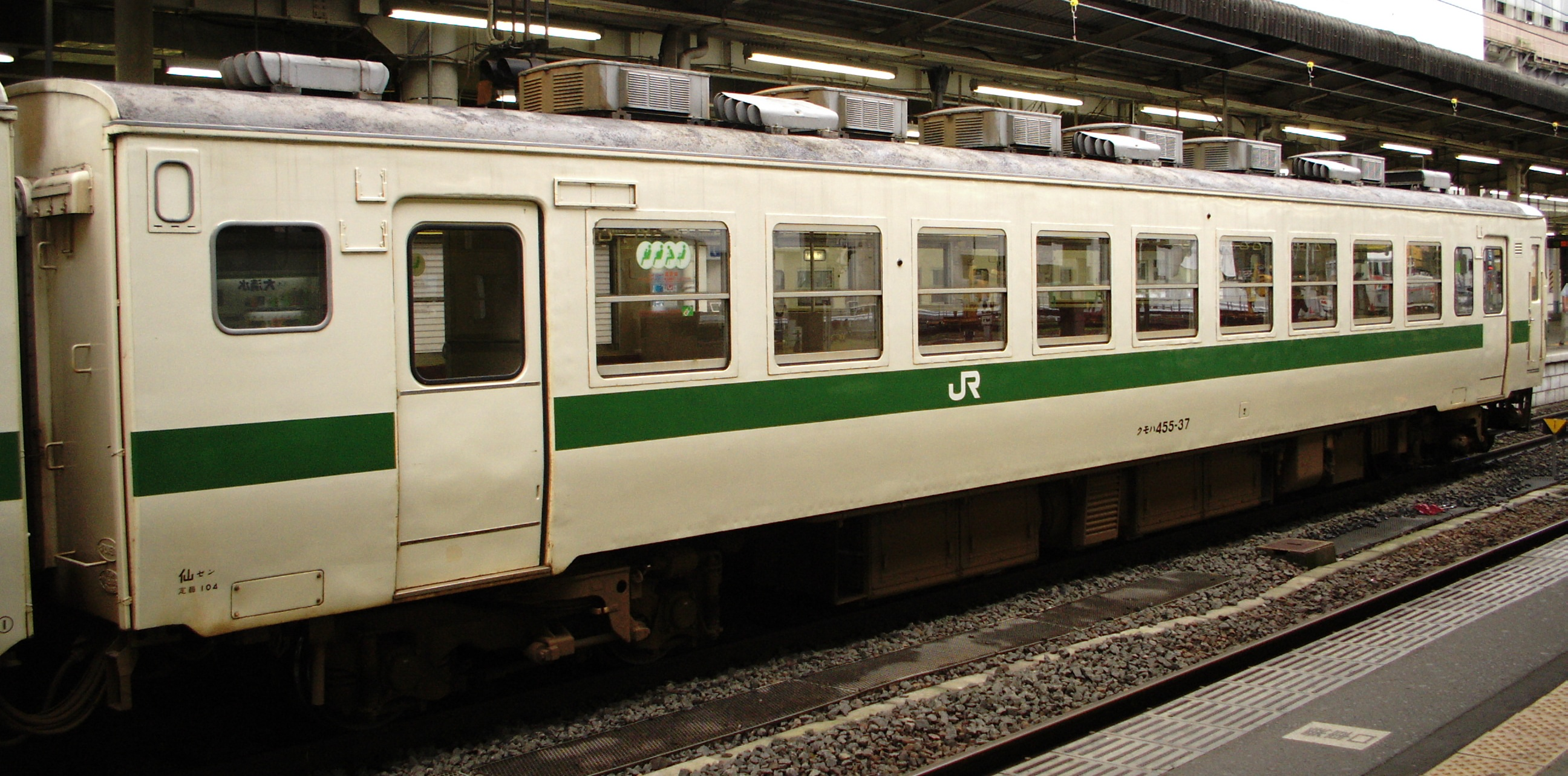 JR East 455 series EMU car KuMoHa 455-37 at Sendai Station